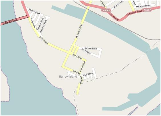 Map of Barrow Island, Barrow-in-Furness